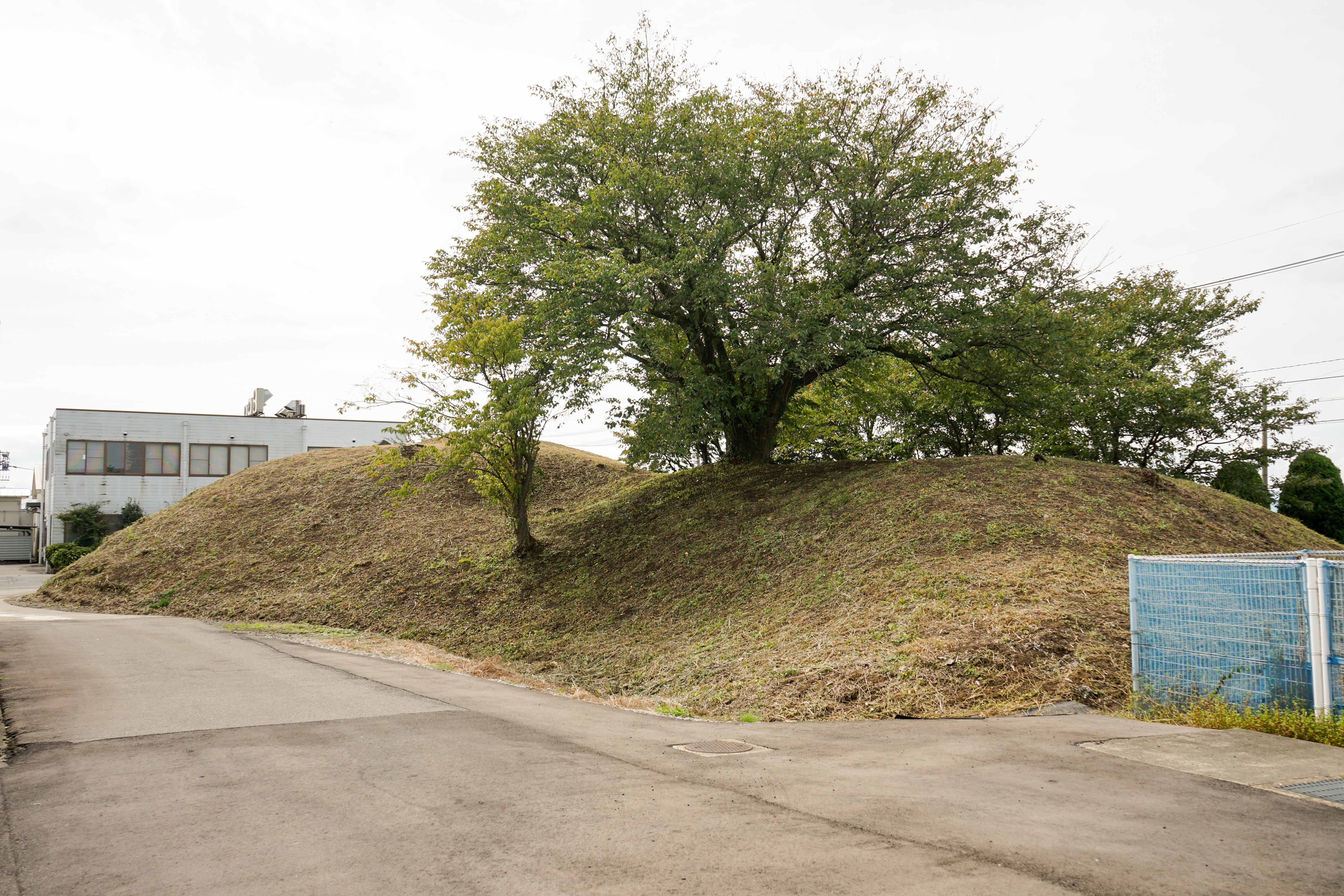 Wankashiyama Kofun (VI c.), Sakai-shi, Fukui Pref., Japan